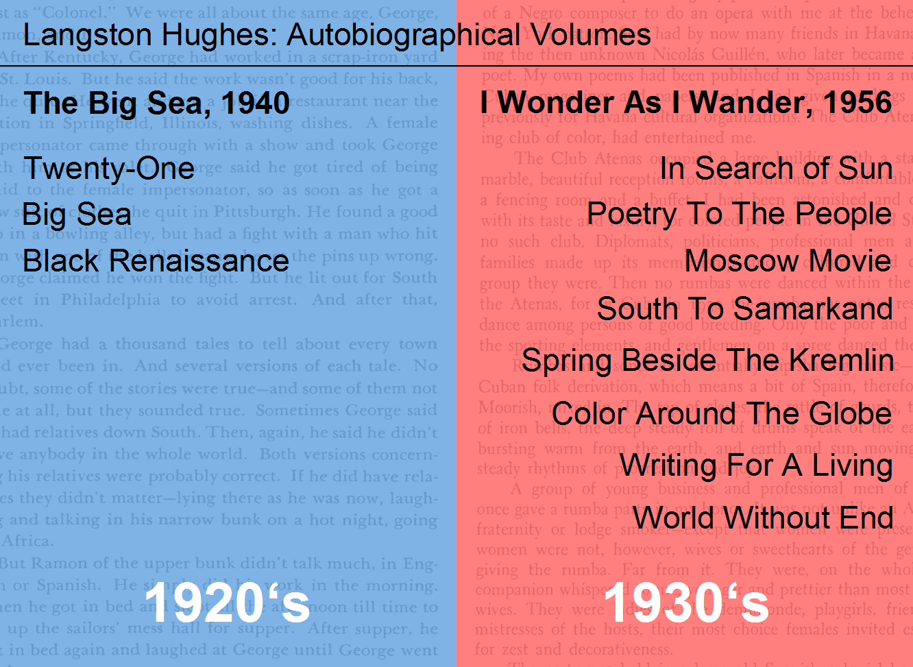 This chart gives an overview of the chapters found in Langston Hughes' two autobigraphical volumes, "The Big Sea", 1940 and "I Wonder As I Wander", 1956, including the decade the narrated episodes are set in.